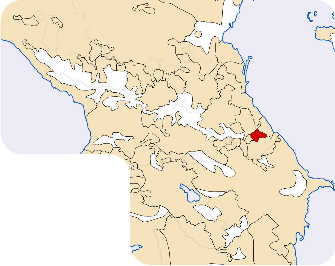 Location map of the Tabasaran people.